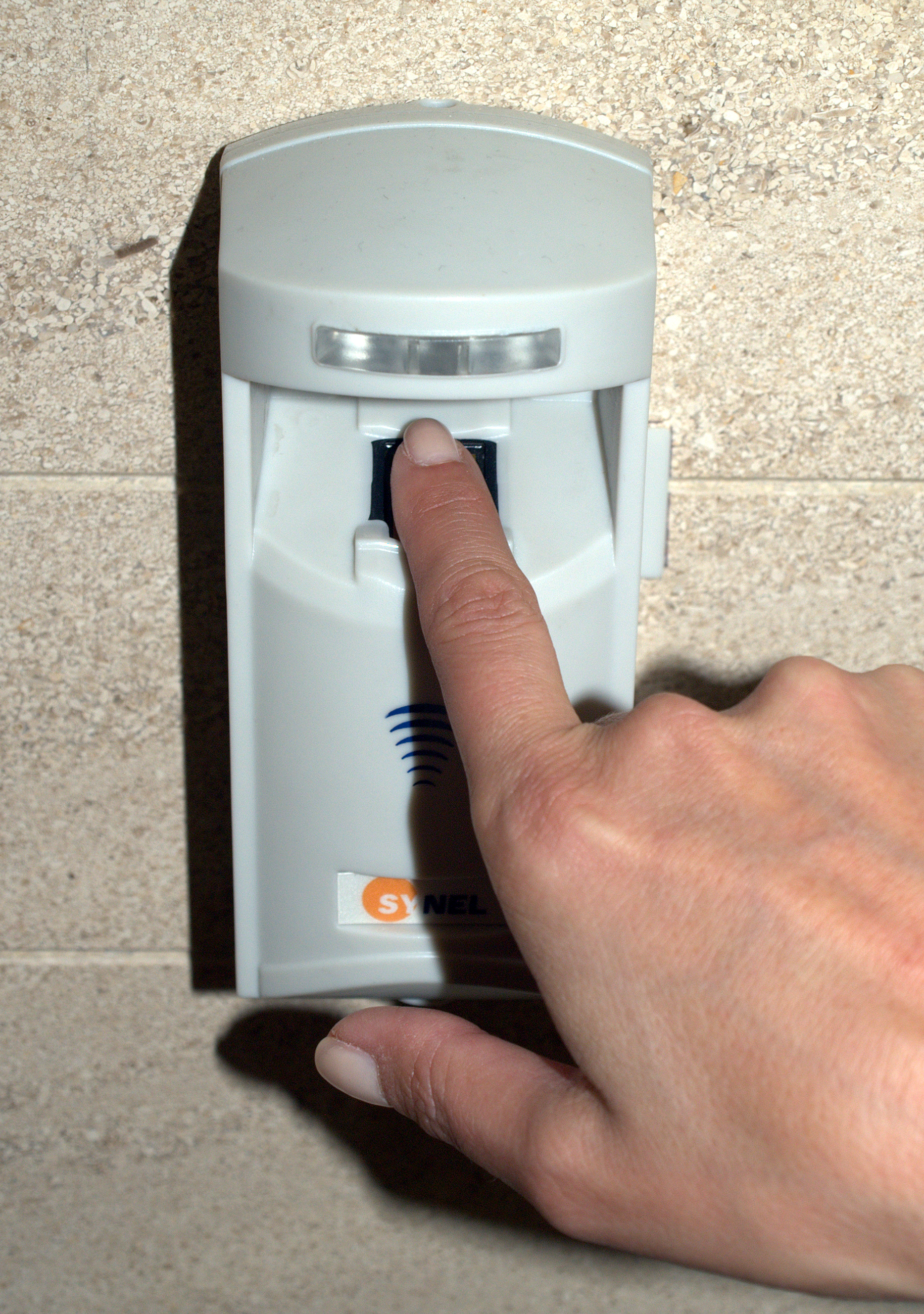 A fingerprint scanner at the offices of Israeli Chemicals in Tel Aviv, Israel.